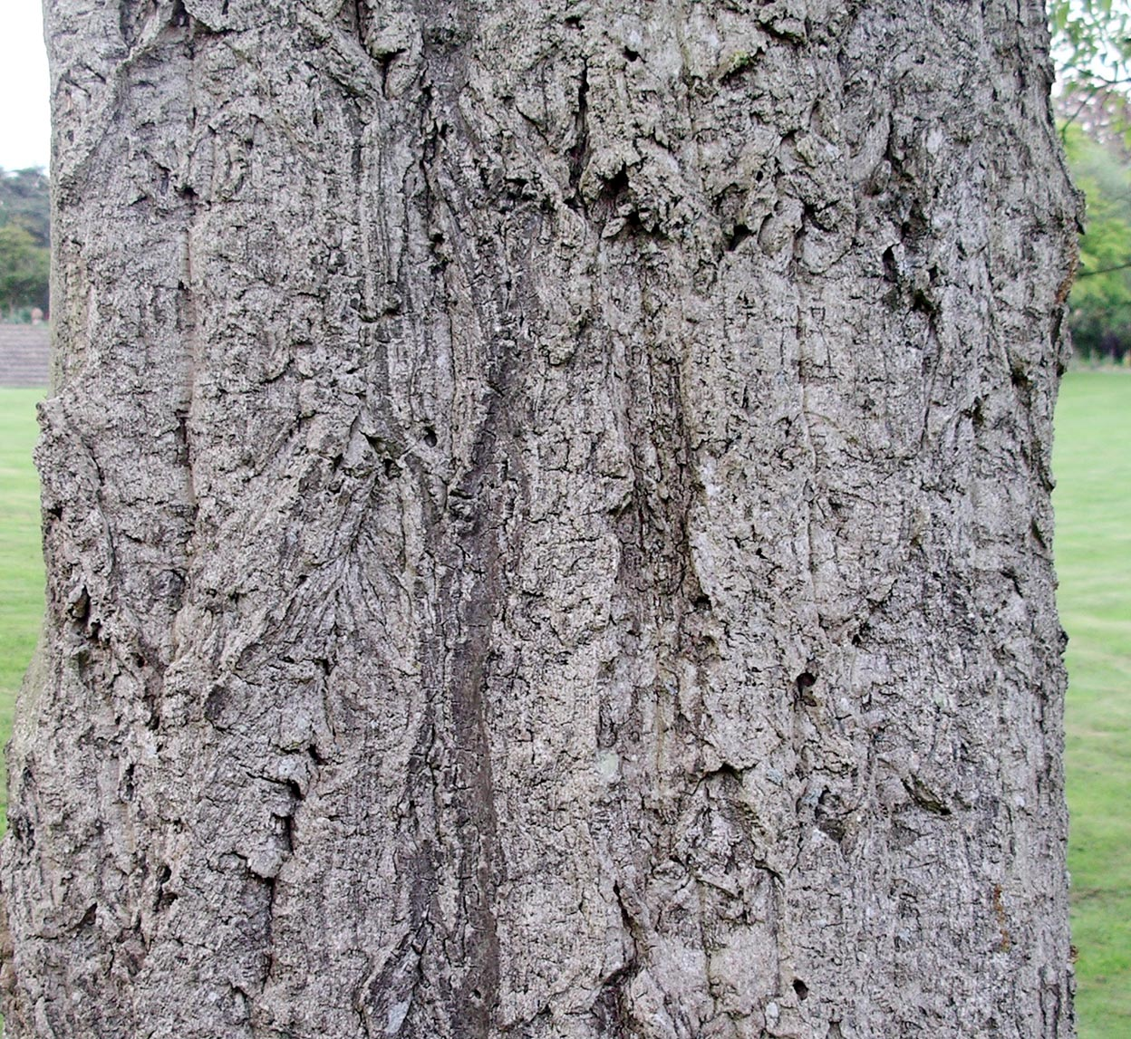 Chinese cork oak at Tortworth Court - Trunk and bark